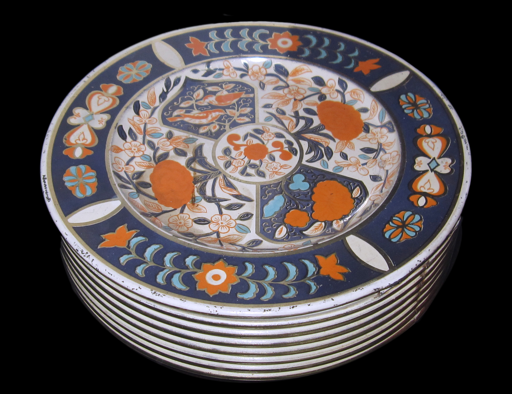 "Plates". A stacked pile of Derby porcelain plates. Made by Hudson Scott & Sons for Huntley & Palmers, 1906. Victoria and Albert Museum no. M.315-1983.